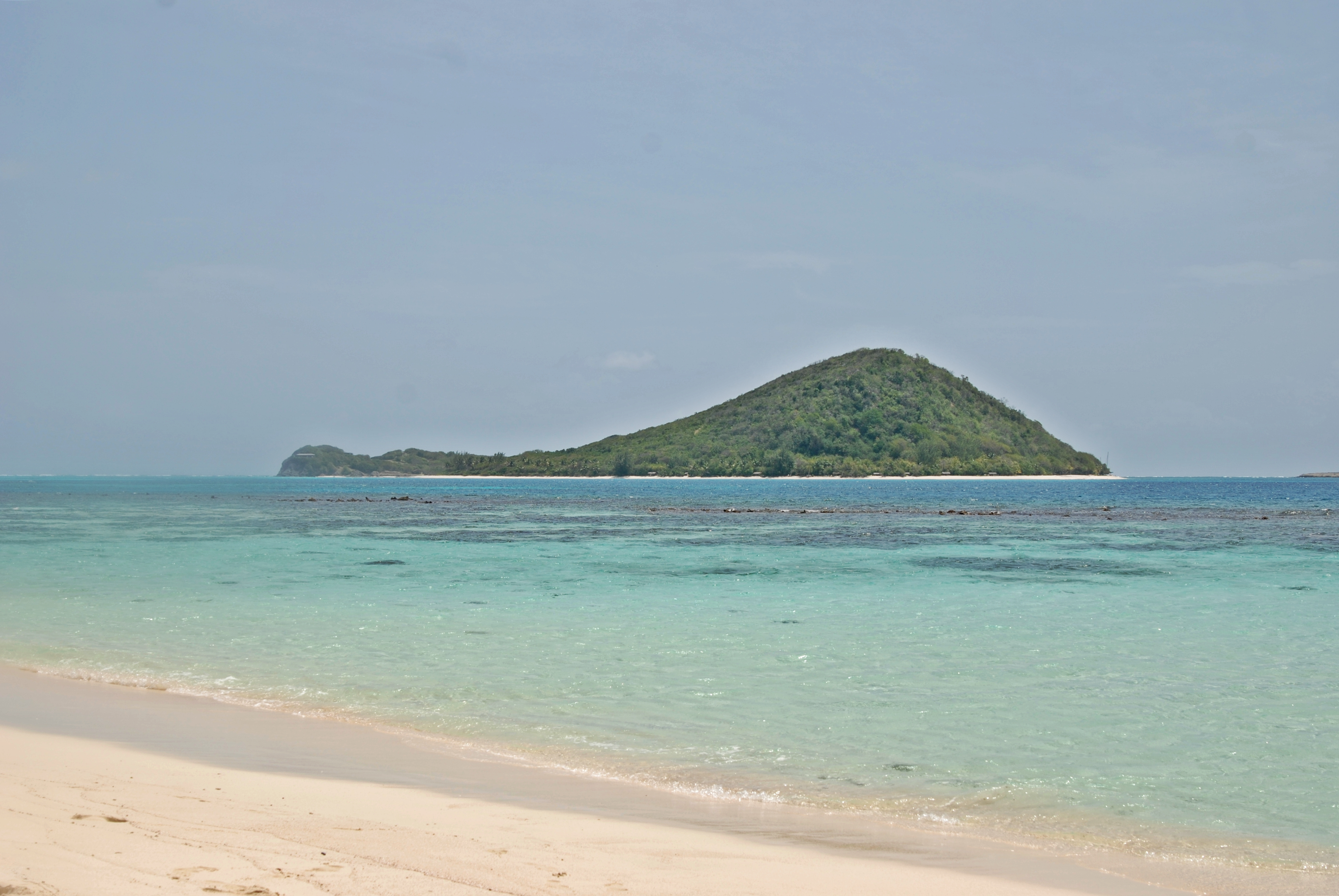 View from Mopion on Petit St. Vincent